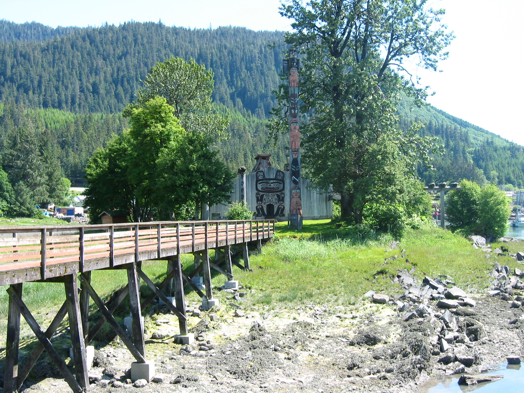 Shakes Island and the Chief Shakes Tribal House in Wrangell Harbor, Wrangell, Alaska.